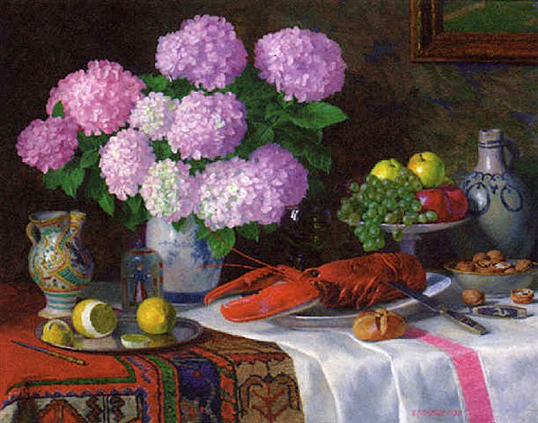 A lobster, bowls of fruit and walnuts and a vase of lilac on a table